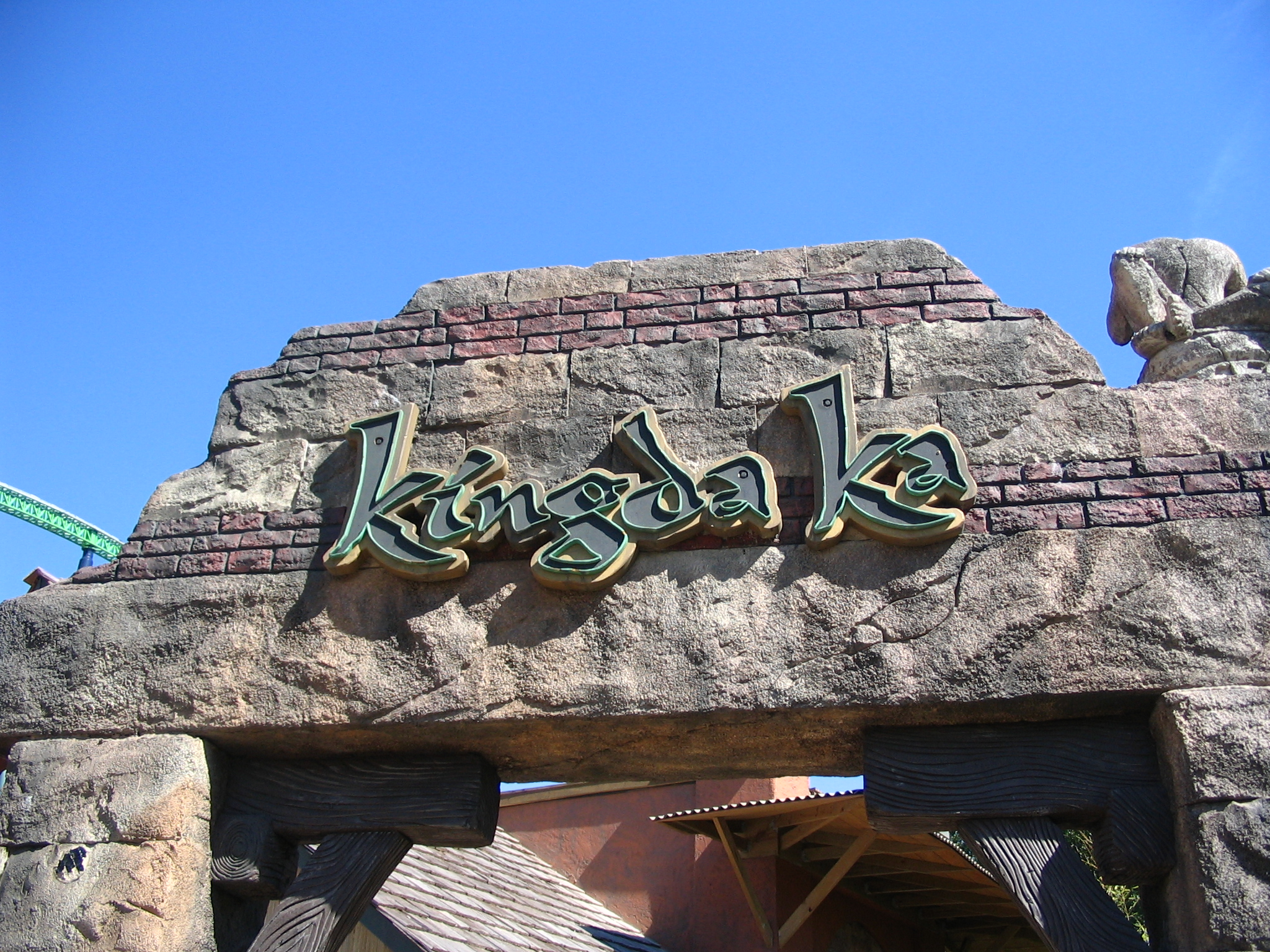 I took this picture. Dusso Janladde 23:42, 16 November 2005 (UTC)